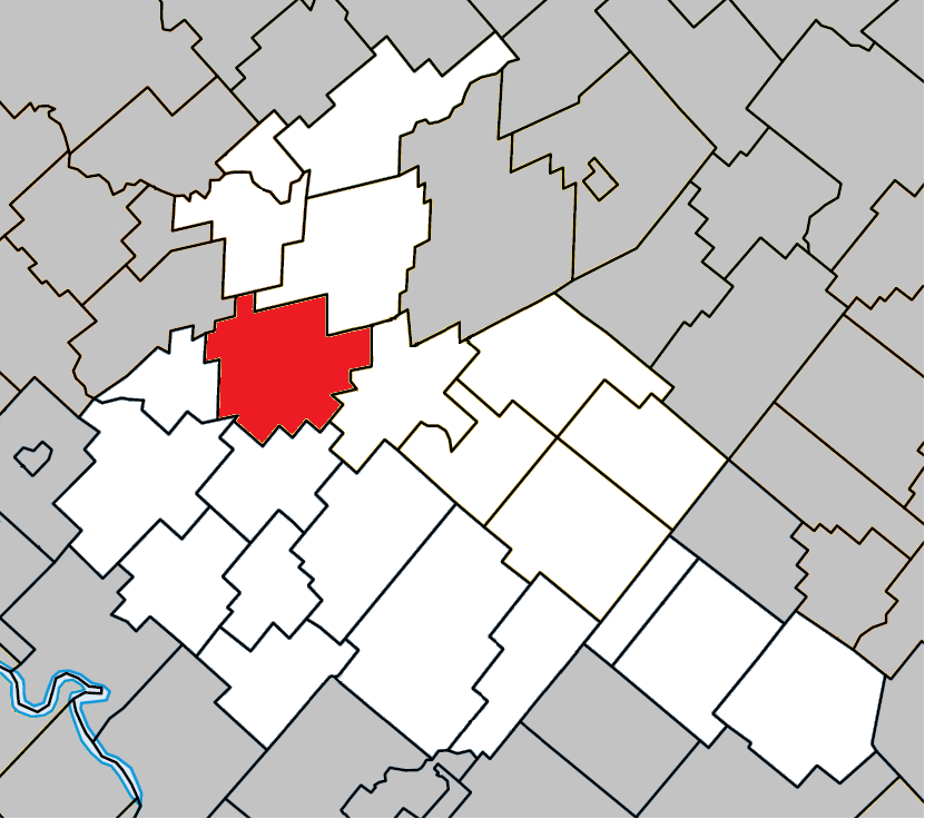 Location of Saint-Valère, Quebec within Arthabaska Regional County Municipality.